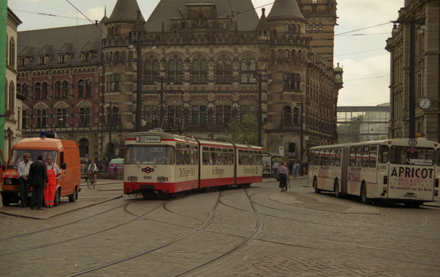 Tram on Route 3 in Bremen City Centre, Haltestelle Domsheide